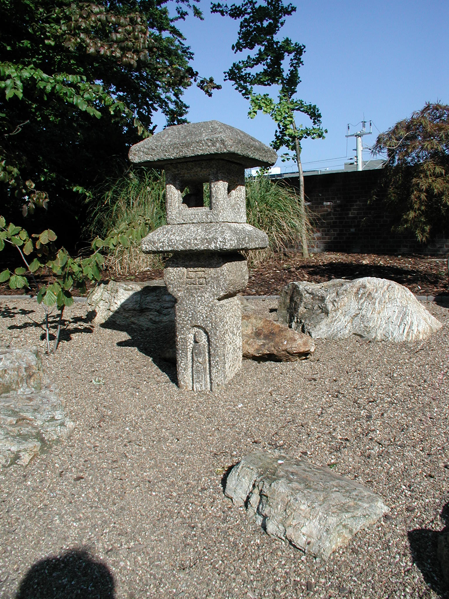 Cologne, Rheinpark. Present of twin city Kyoto